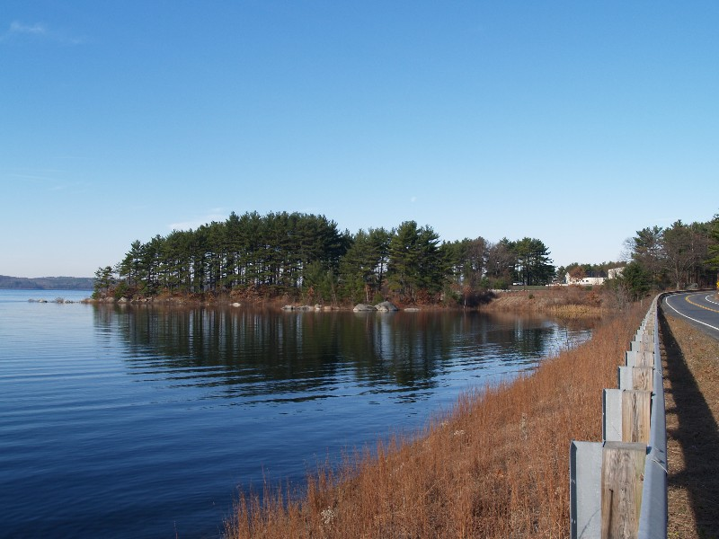 Wachusett Reservoir from Route 70, south of Clinton, Massachusetts